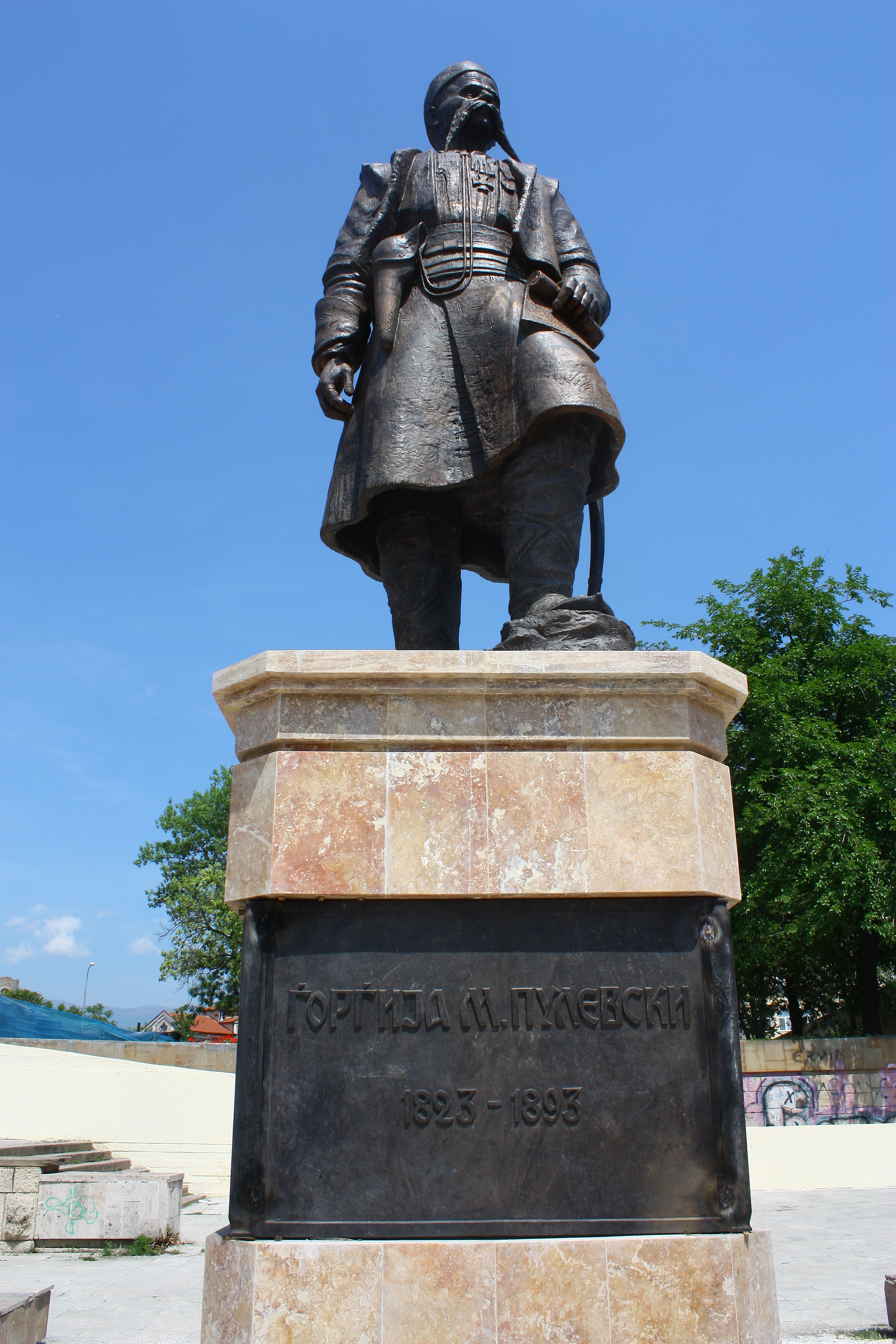 Monument of Ǵorǵija Pulevski in Skopje, Macedonia